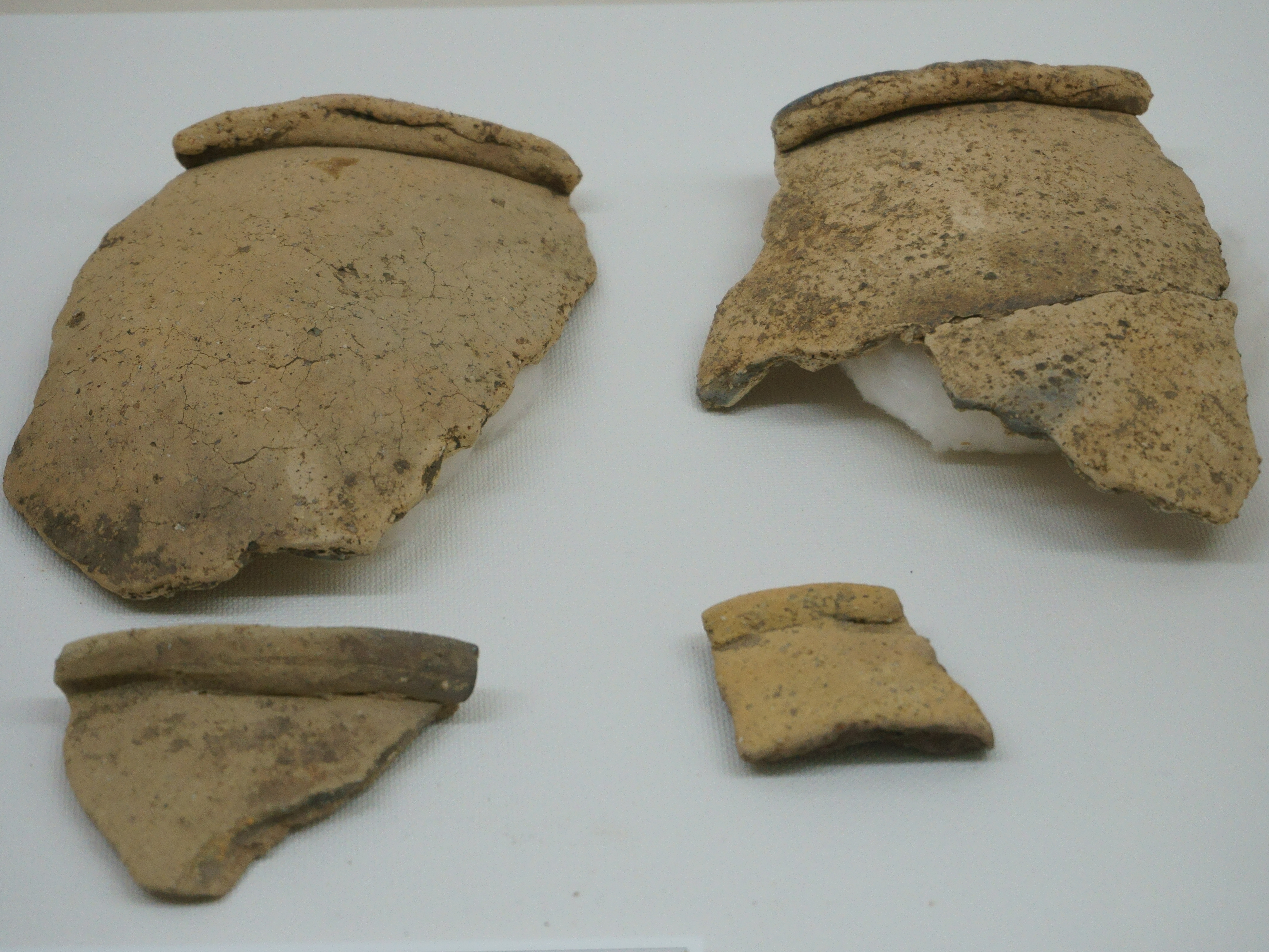 Pieces of Korean-style plain coarce pottery. Excavated from the workshop of bronze ware in Yoshinogari Site. Display:Exhibition room of Yoshinogari Site.